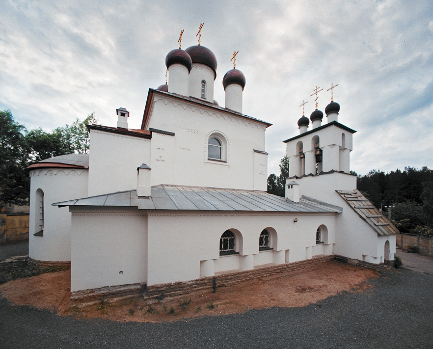 Tiarlevo (Russia)